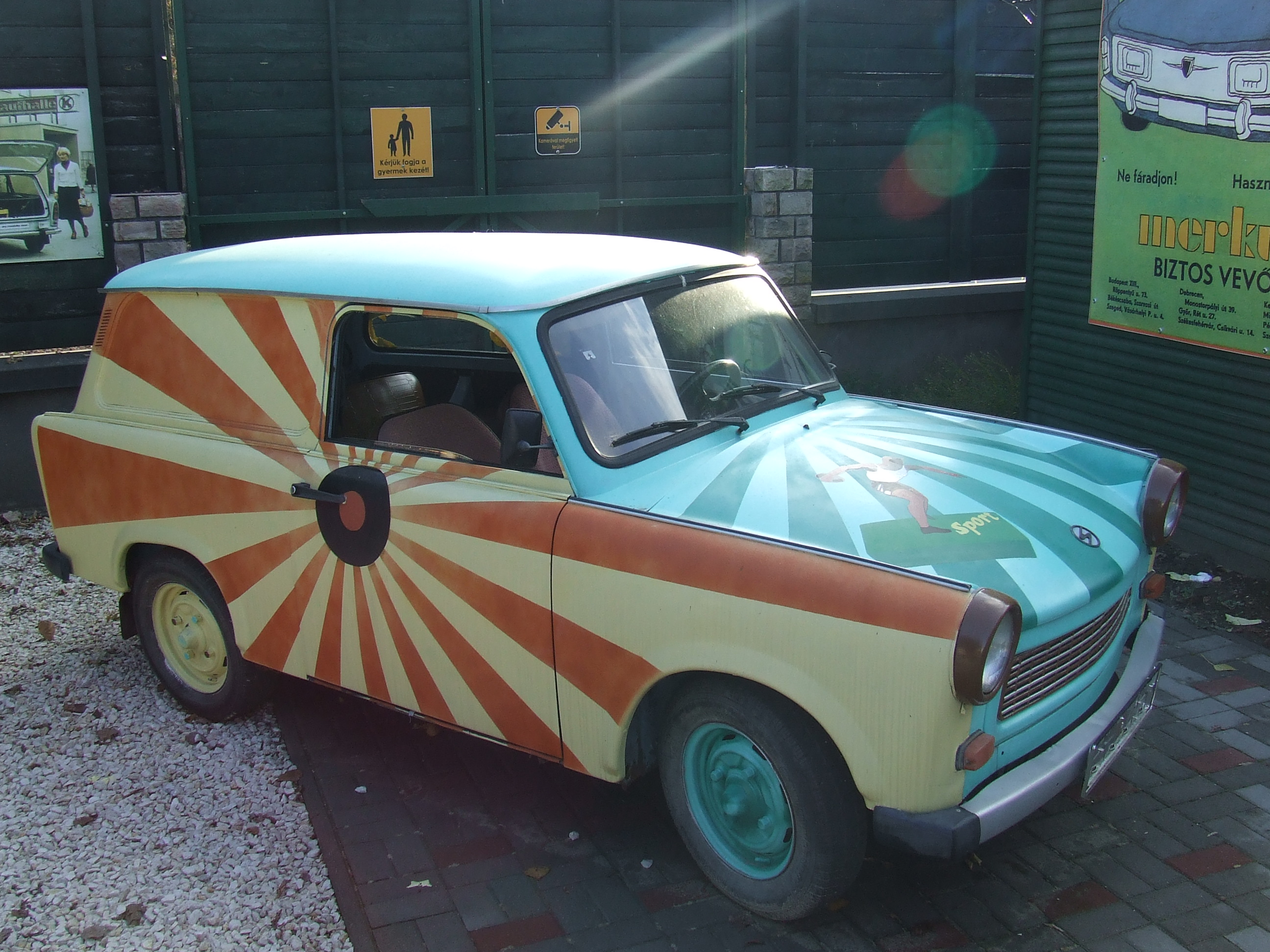 Szentendre, Retro Design Center